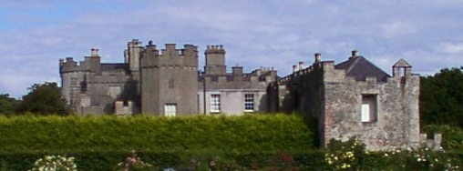 Ardgillan Castle, view from North side